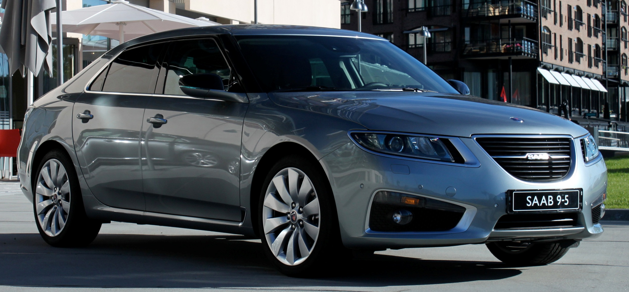 Second-generation Saab 9-5 on display outside a Saab boutique at Aker Brygge, Oslo, Norway.